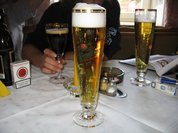 Wernesgrüner, taken in Wust at the Schwarzer Adler by John McStravick